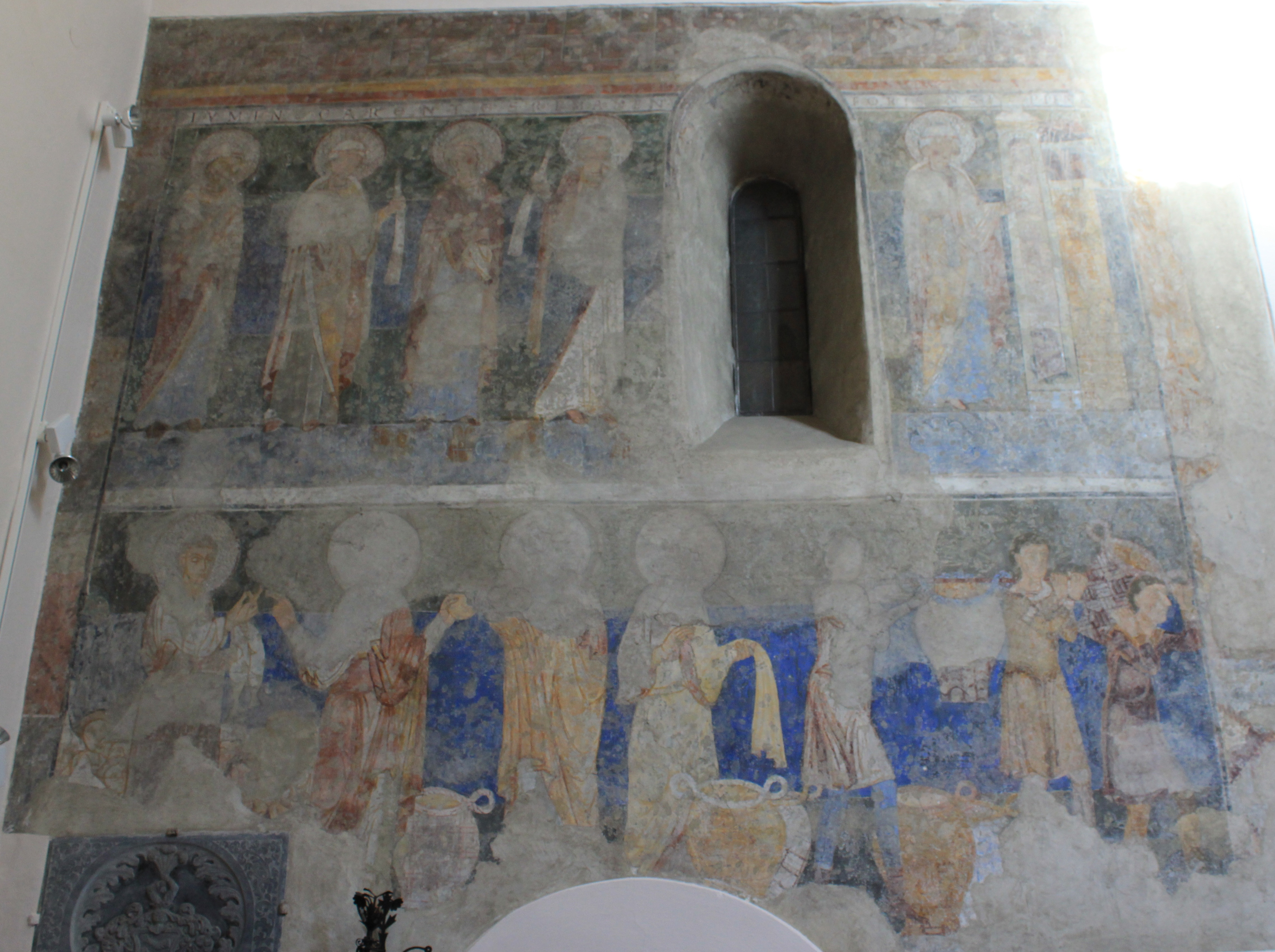 Church of Teutonic Knights in the city Friesach: Fresco